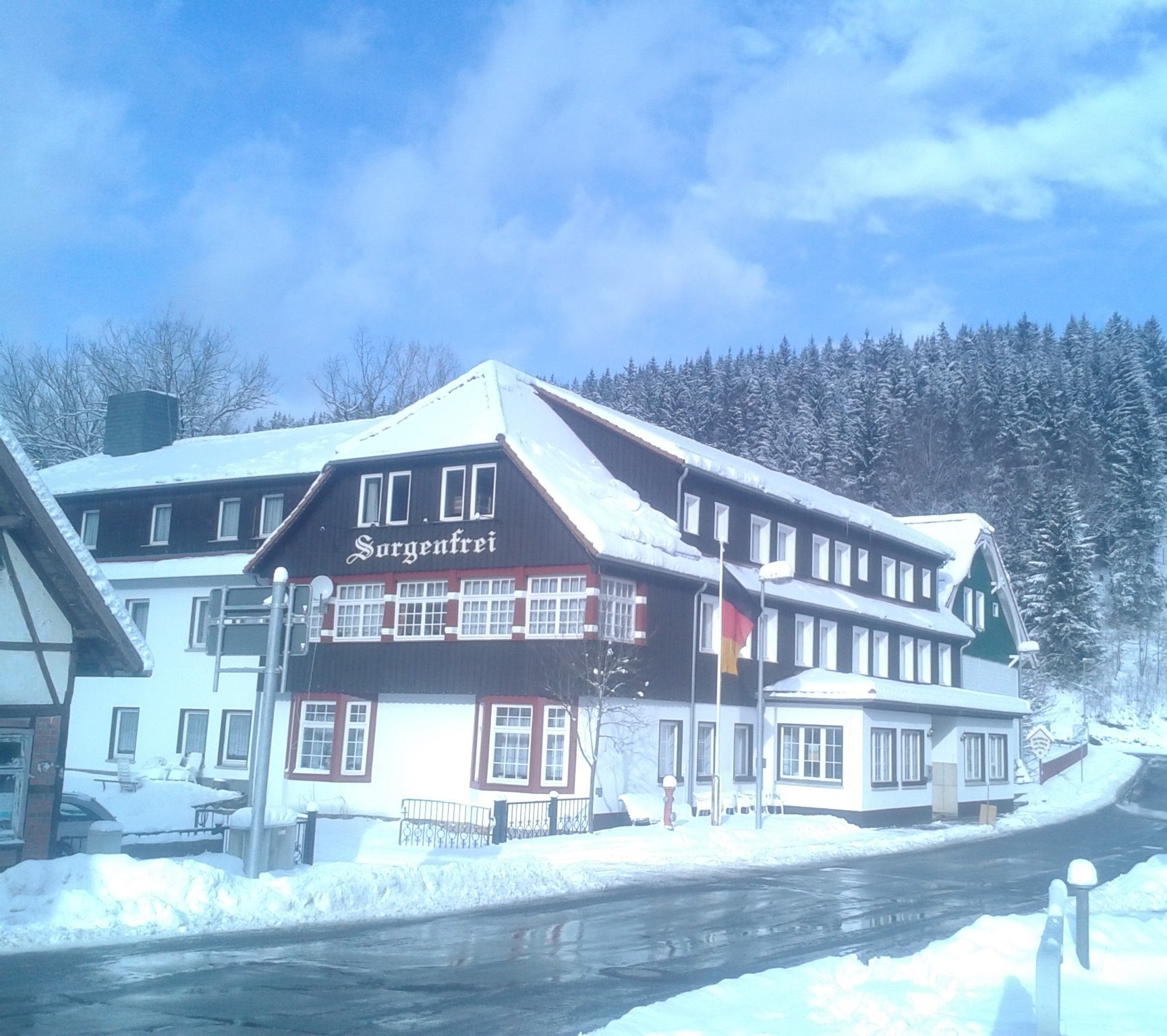 Sorge (D) Sorgenfrei 20150131